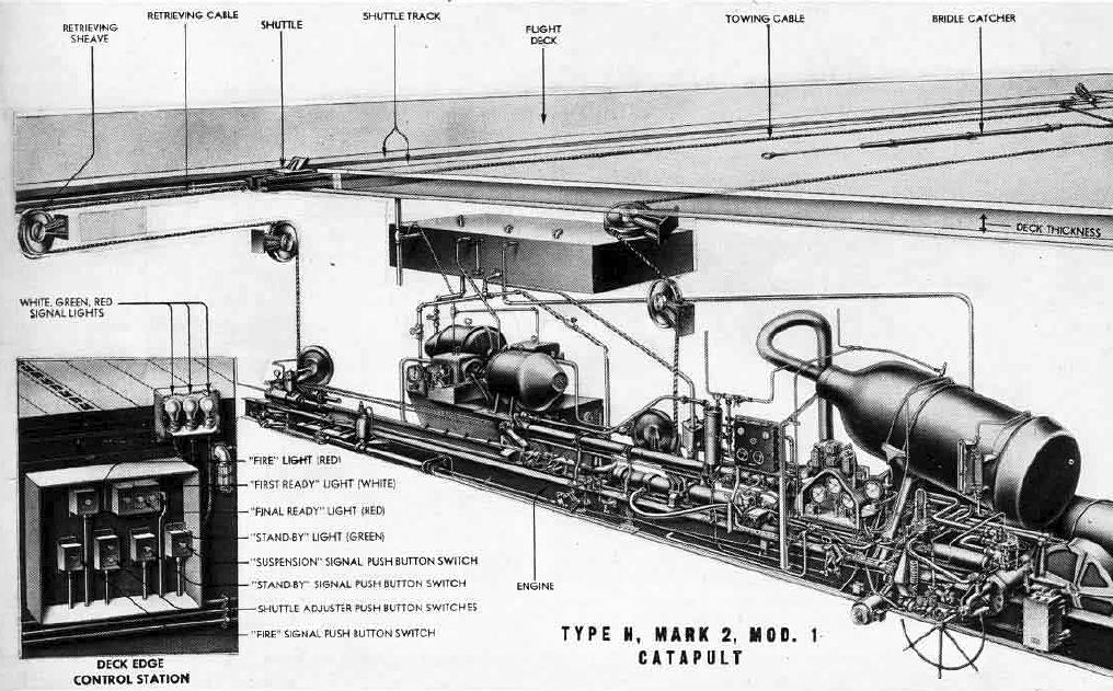 Exploding view showing the U.S. Navy H2 Mod. 1 hydraulic catapult.